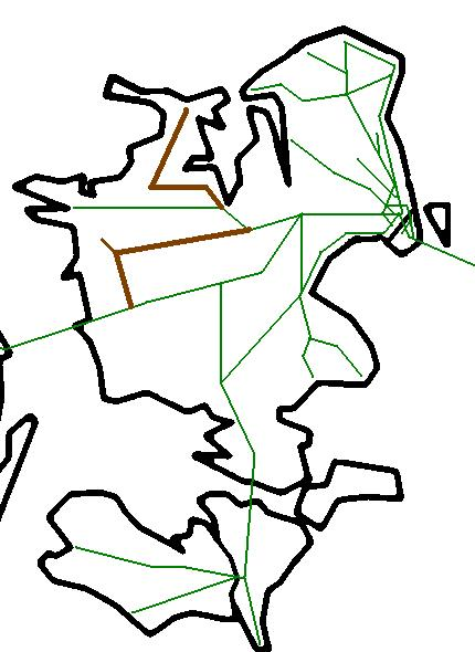 Map of railways on Sjælland (Zealand) with the private railway Vestsjællands Lokalbaner (ex. Odsherreds Jernbane and Høng-Tølløse Jernbane) in brown. The thin marked line Høng - Gørlev have no passenger trafic.